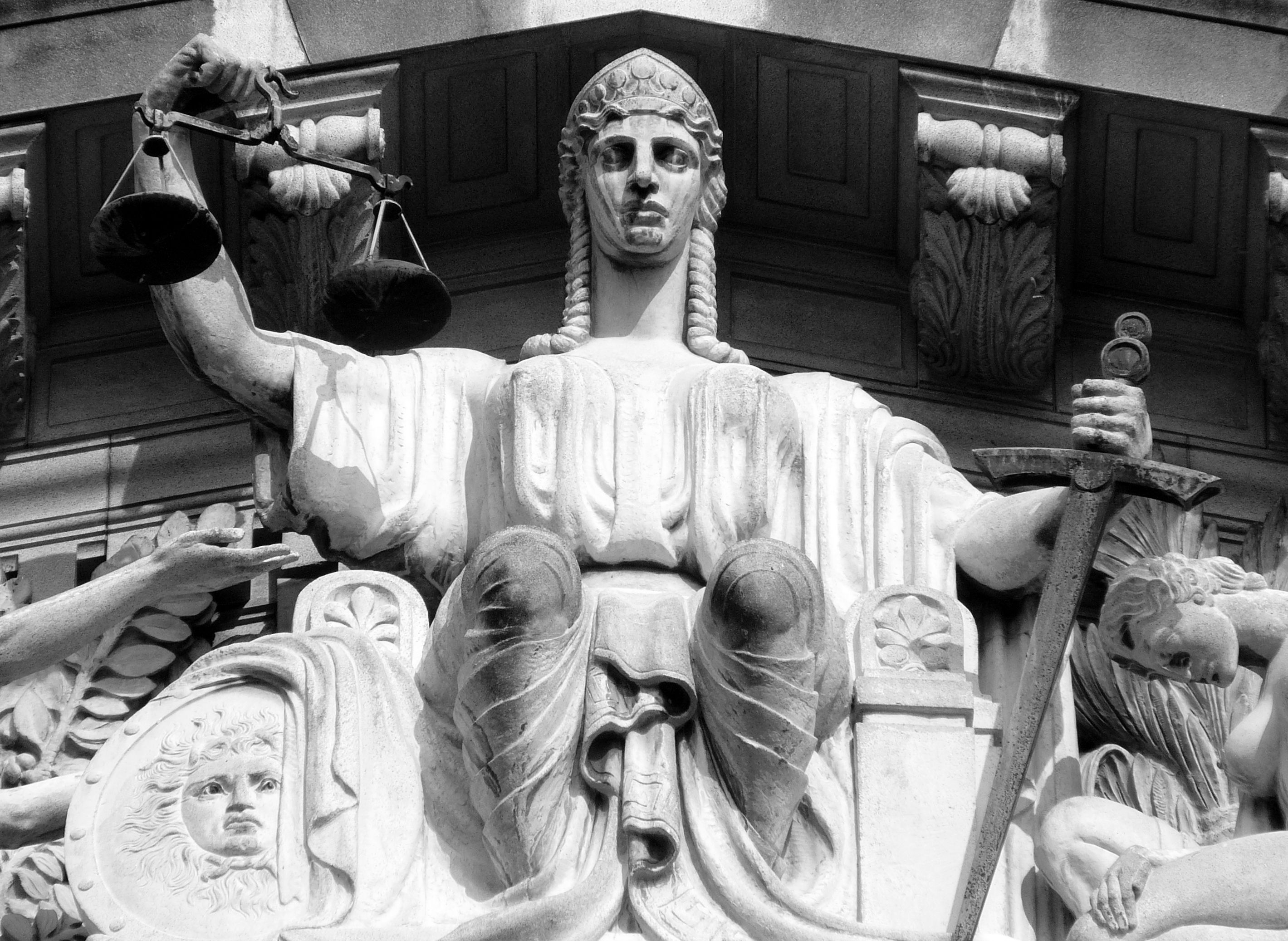 A statue of Justice on the tympanum of the Old Supreme Court Building, Singapore.